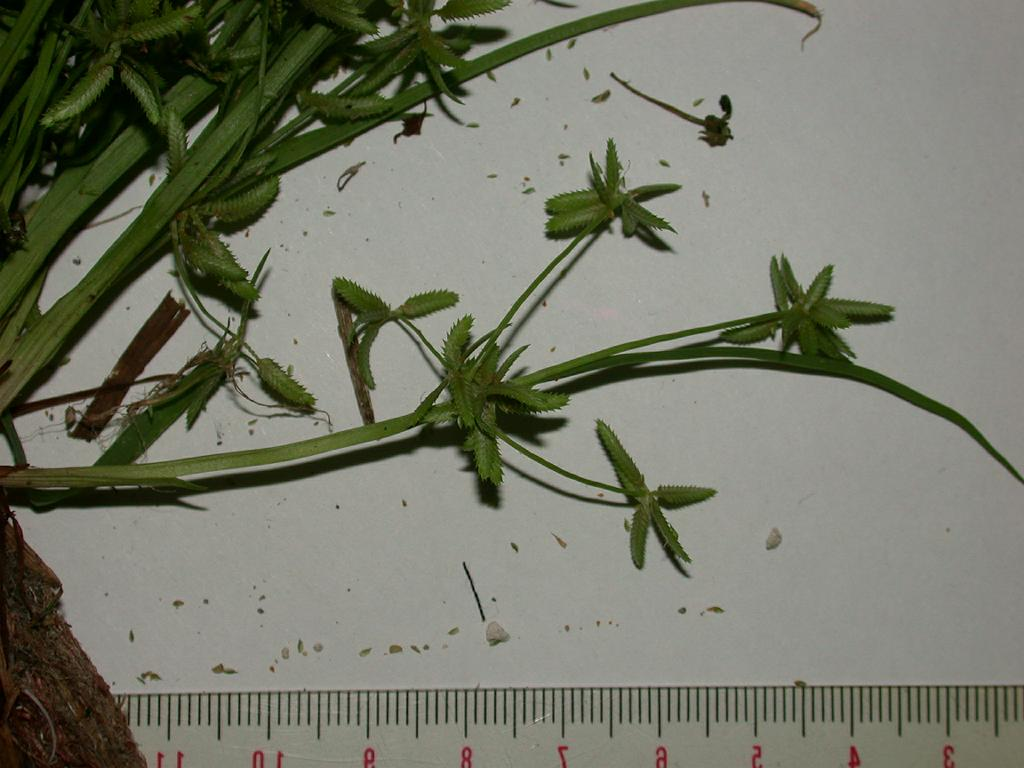 Cyperus flaccidus(Cyperaceae) Japanese name:hinagayaturi Date;2004,10,07;Sirahama town, Wakayama prefecture, Japan Author;Keisotyo